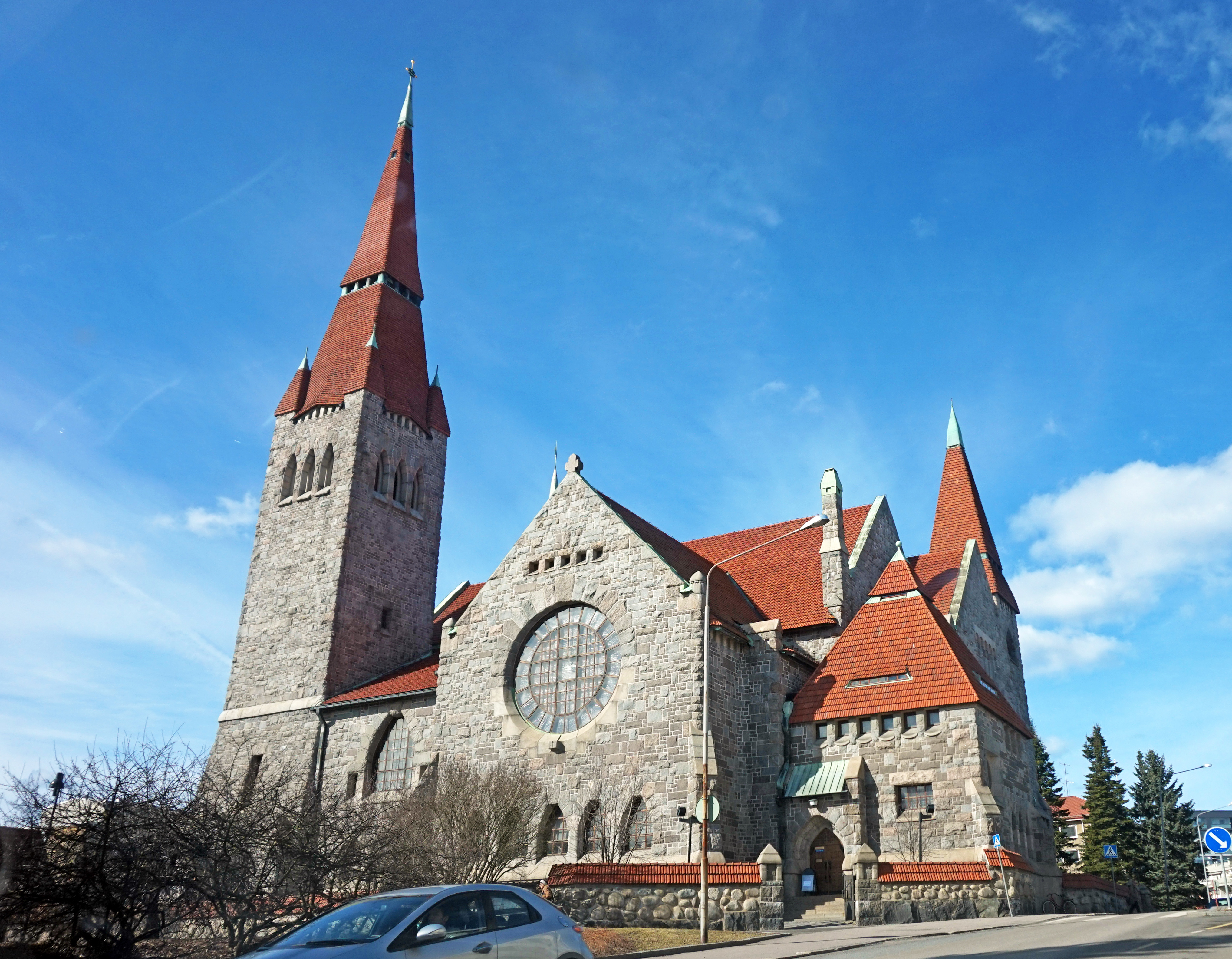 Tampere Cathedral, Finland.